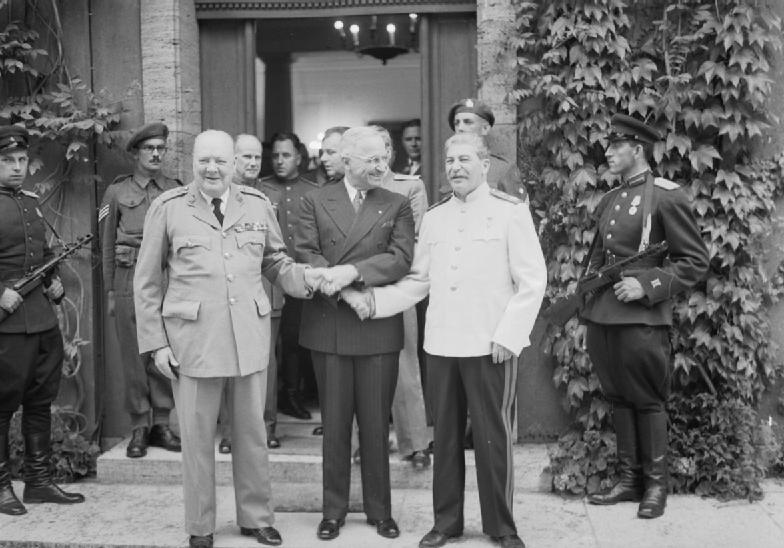 Prime Minister Churchill, President Truman and Marshal Stalin shake hands after the conference. Code-named TERMINAL this was the final Big Three meeting of the war.